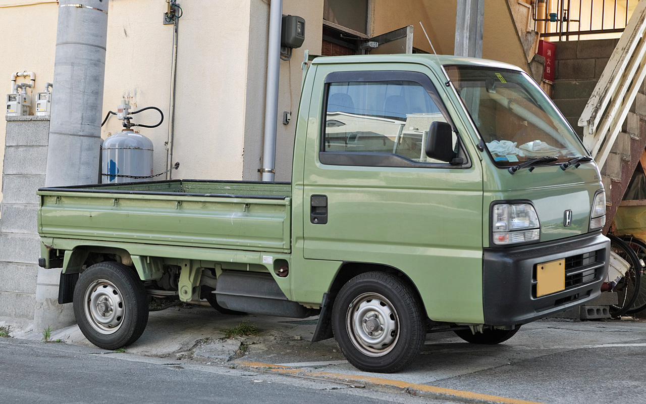 Second generation Honda Acty 660 SDX